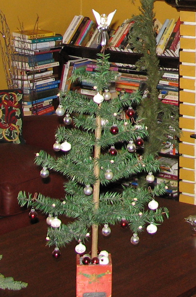 An antique feather tree, purchased via ebay.